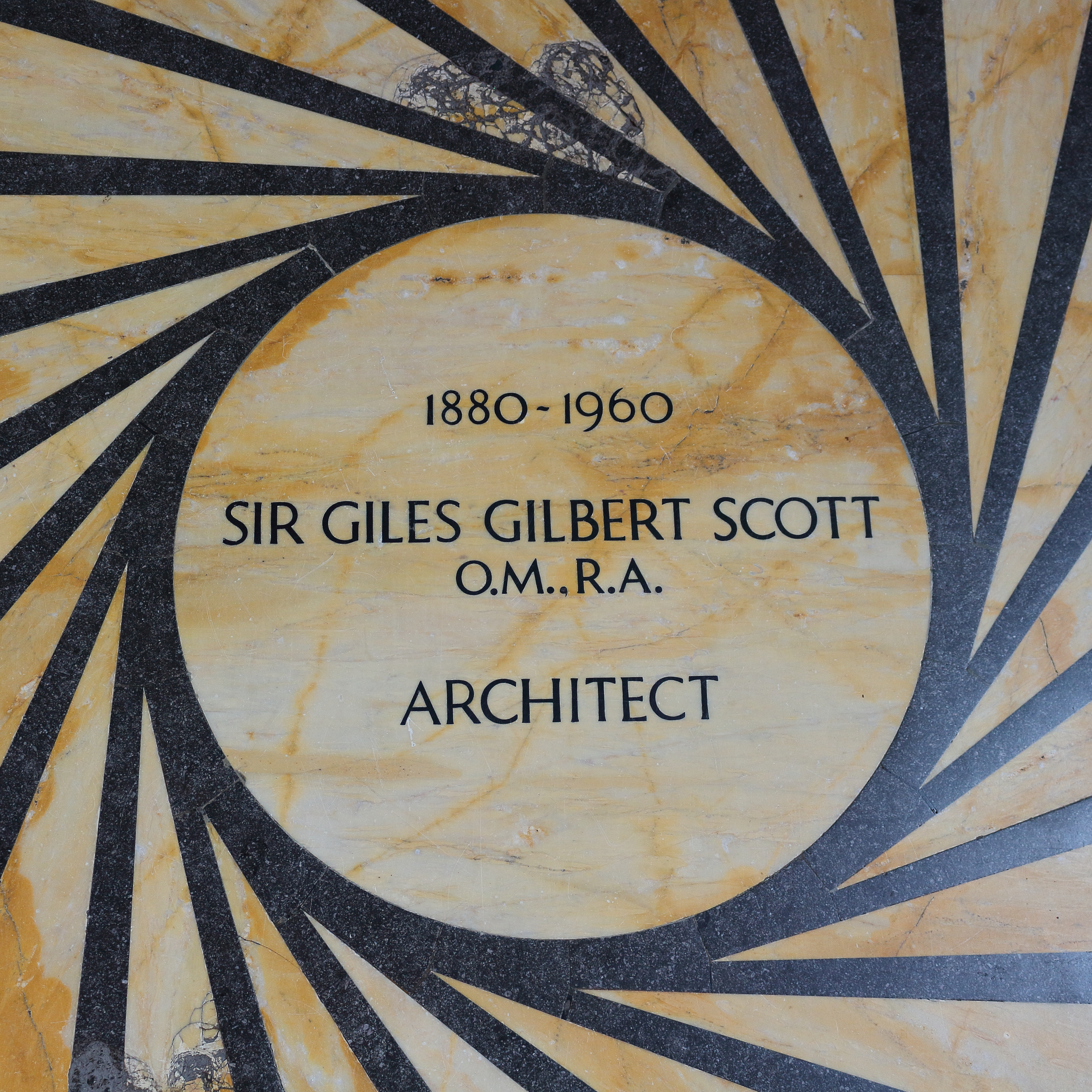 Catherine wheel design set into the floor of the nave of Liverpool Anglican Cathedral in commemoration of its architect, Giles Gilbert Scott.